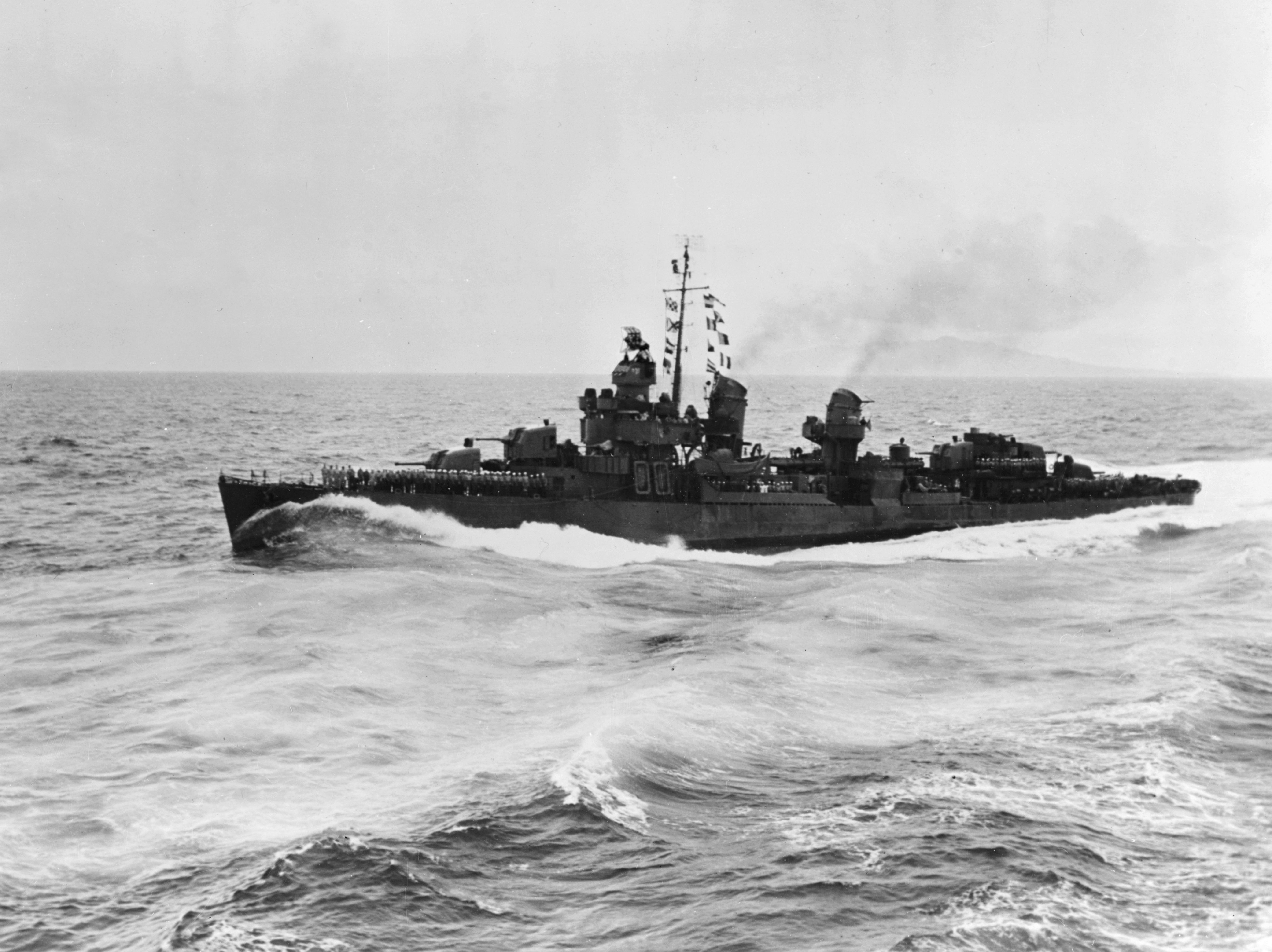 The U.S. Navy destroyer USS Spence (DD-512) steaming in Iron Bottom Sound, off Guadalcanal, with her crew manning the rails, 23 March 1944. Savo Island is visible in the distance. The photo was taken from the light cruiser USS Montpelier (CL-57).